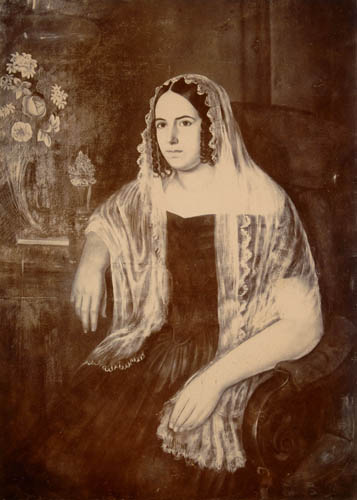 Portrait of Agustina Rosas de Mansilla (1816-1898), Juan Manuel de Rosas's sister.